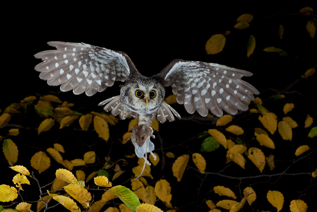 Tengmalm's Owl flying with prey (Yellow-necked Mouse)